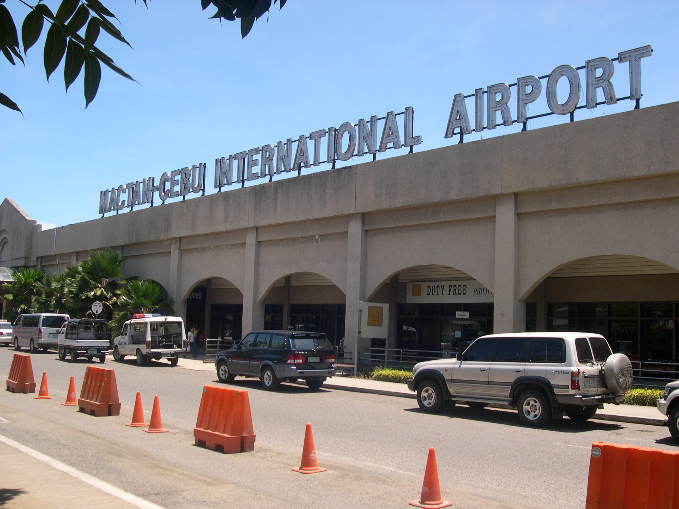 The departure hall of Mactan Cebu International Airport on Mactan Island.